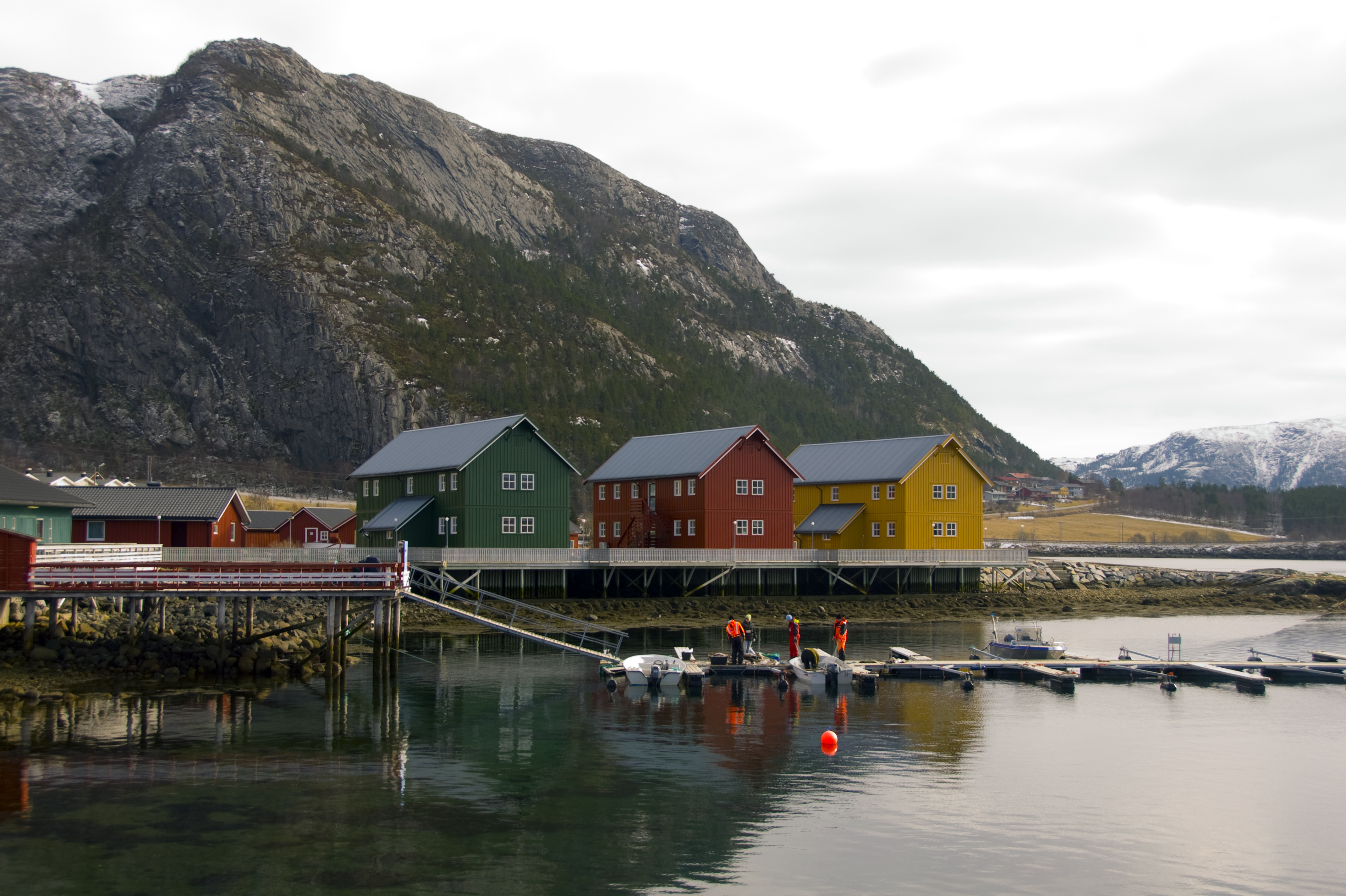 Rorbu at Lauvsnes in Flatanger, Norway